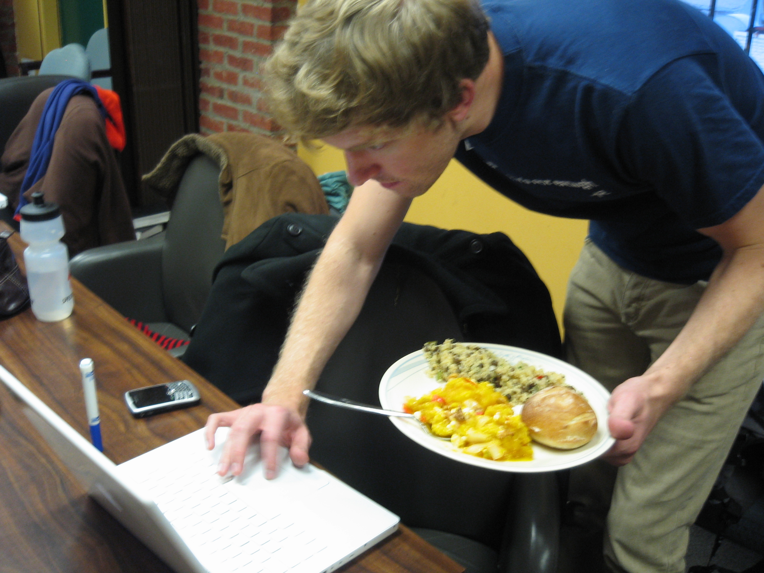 a little email check before dinner